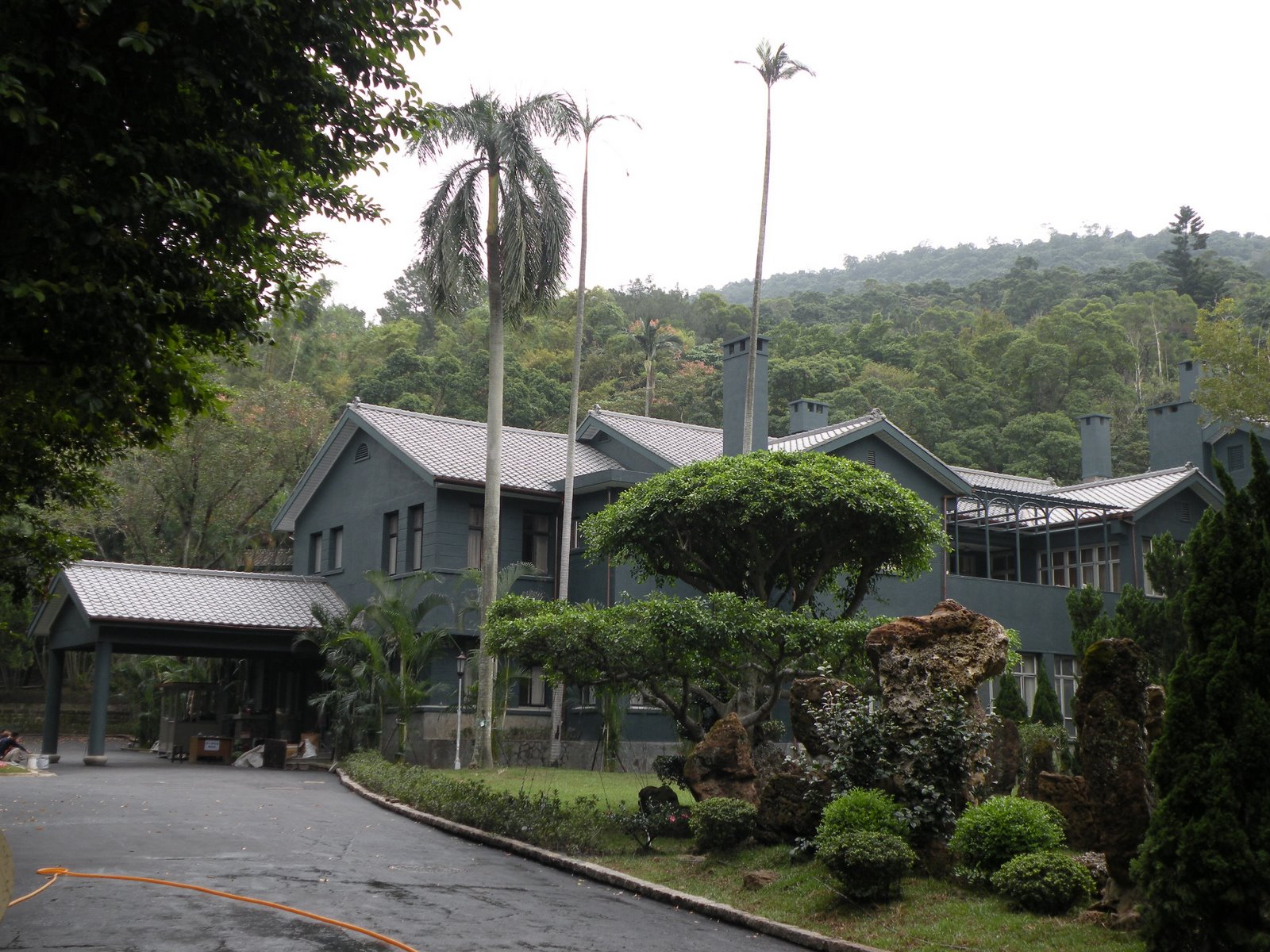 Chiang Kai-shek Shilin Official Residence, Taipei, Taiwan